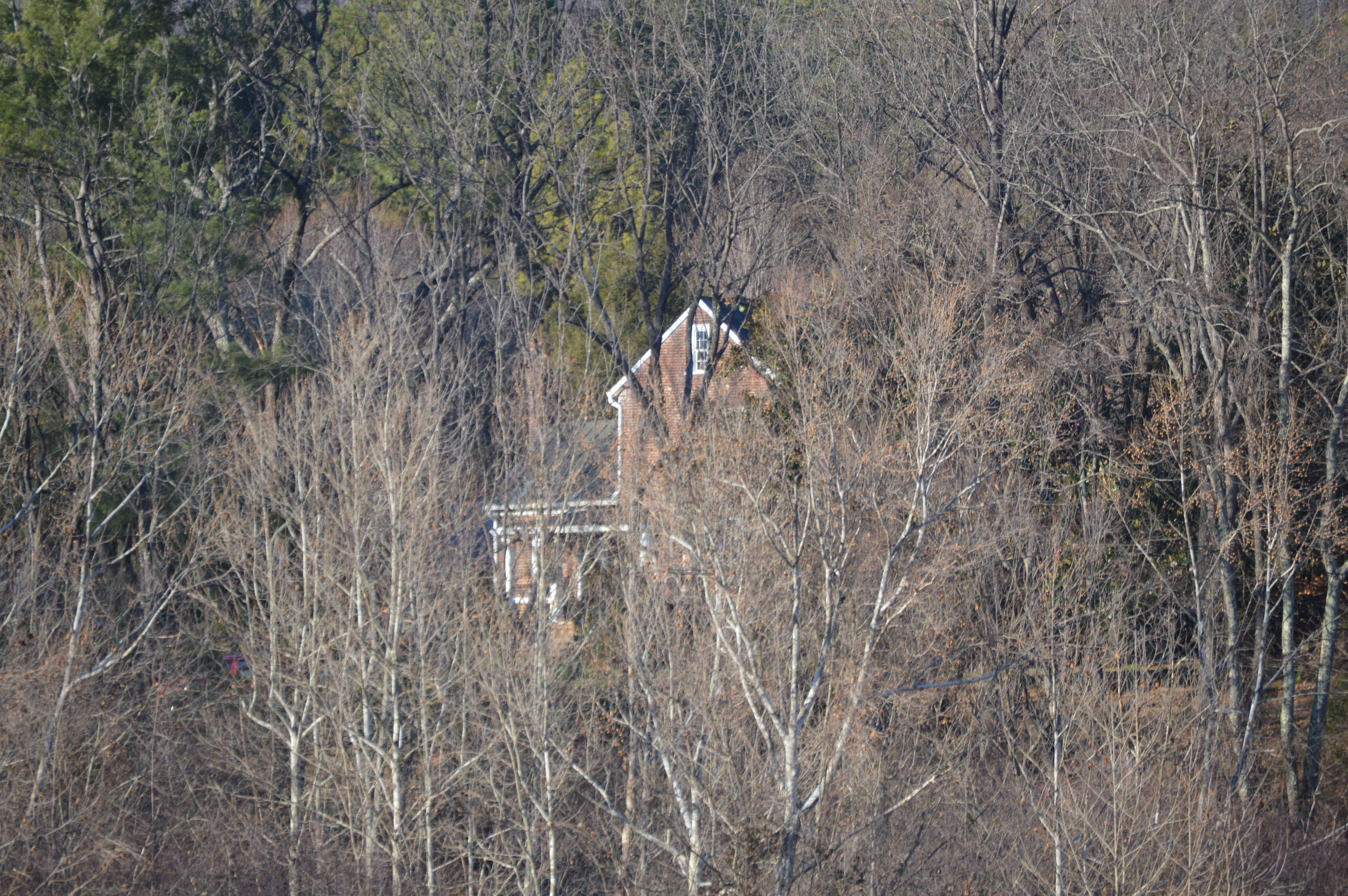 Through-the-trees view of the River Bluff farmhouse, located on State Route 151 at Wintergreen in Nelson County, Virginia, United States. Built in 1785, it is listed on the National Register of Historic Places, and it is part of a Register-listed historic district, the South Rockfish Valley Rural Historic District.